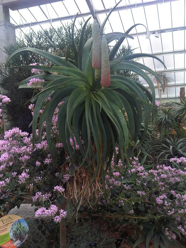 Aloe × hexapetala at Kew Gardens, England.